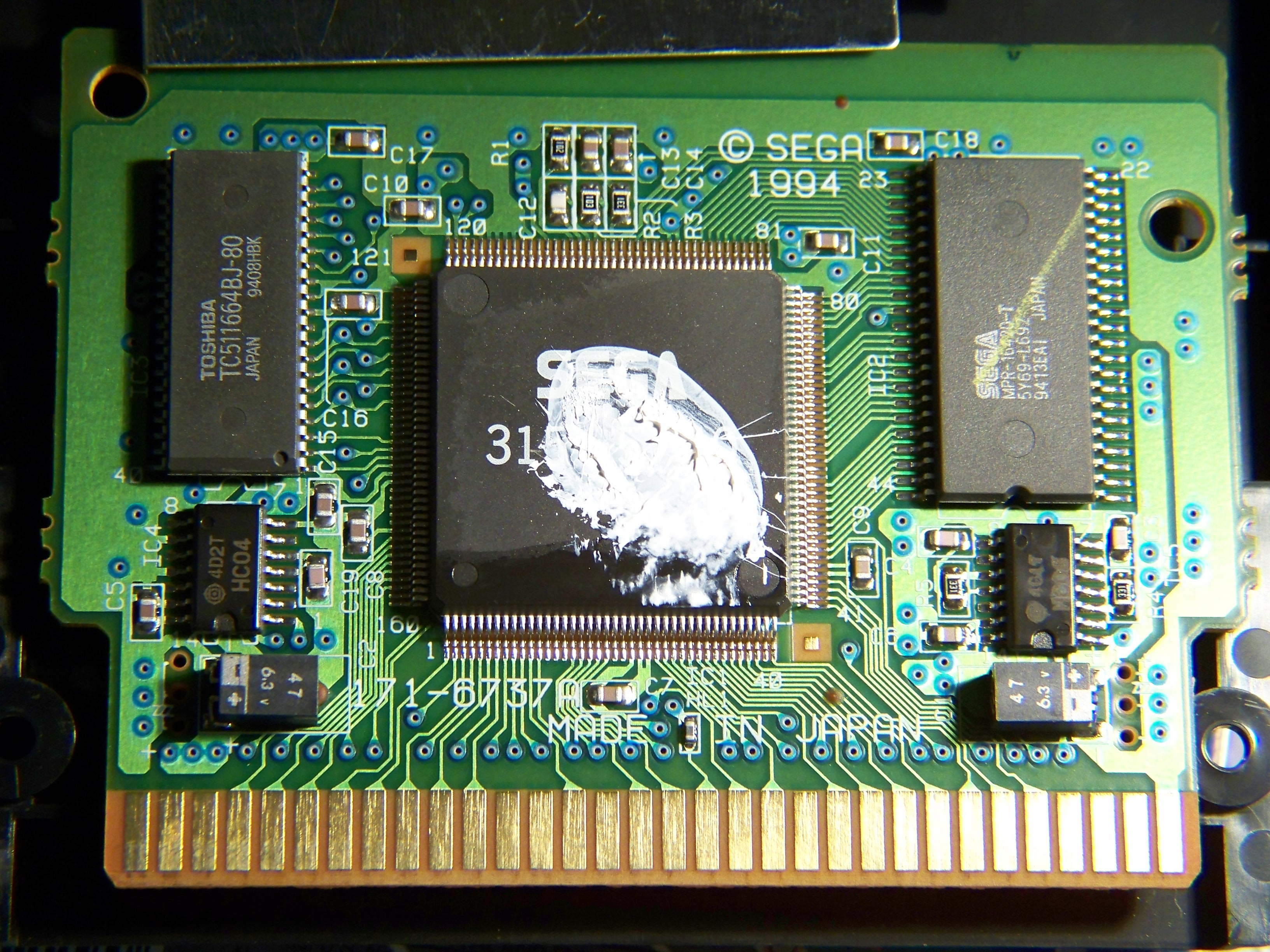 A photo inside the Sega MegaDrive Virtua Racing, showing the SVP (Sega Virtua Processor) chip.